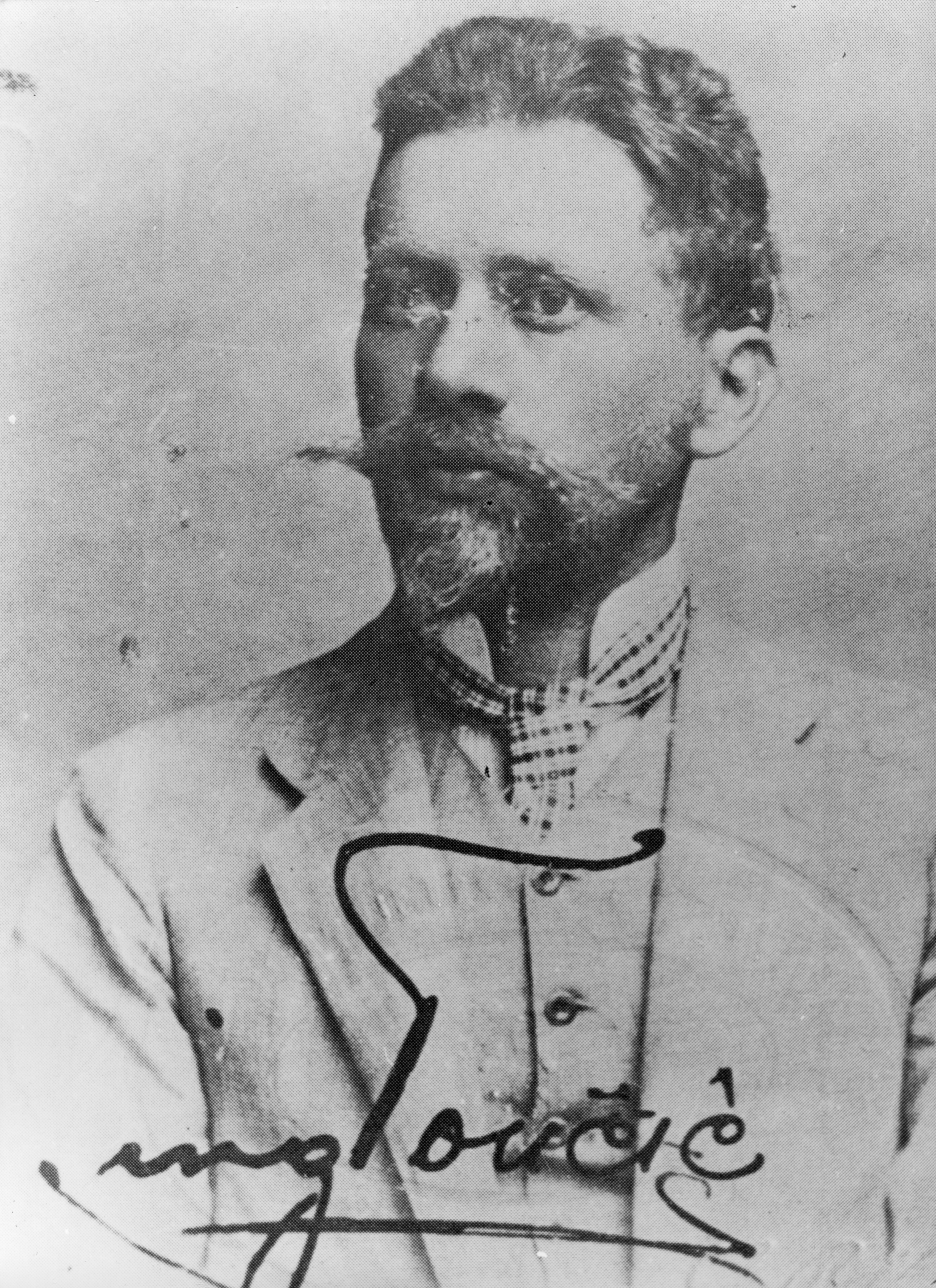 Portrait of Kamilo Tončić-Sorinj